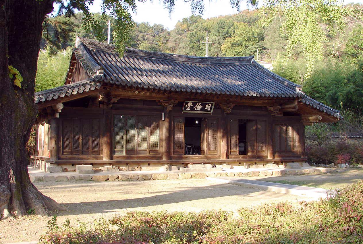 Myeongyundang (lecture hall) - Jeonju Hyanggyo is a Confucian school that was established during the Joseon Dynasty (1392-1910) and was rebuilt at its present Jeonju site in 1603. There are a total of 99 rooms at the hyanggyo. The memorial enshrinement, Daeseongjeon, is in the front, while the lecture hall, Myeongyundang is in the rear. This style of building arrangement is very rare for a hyanggyo. Designated historical treasure No. 379.